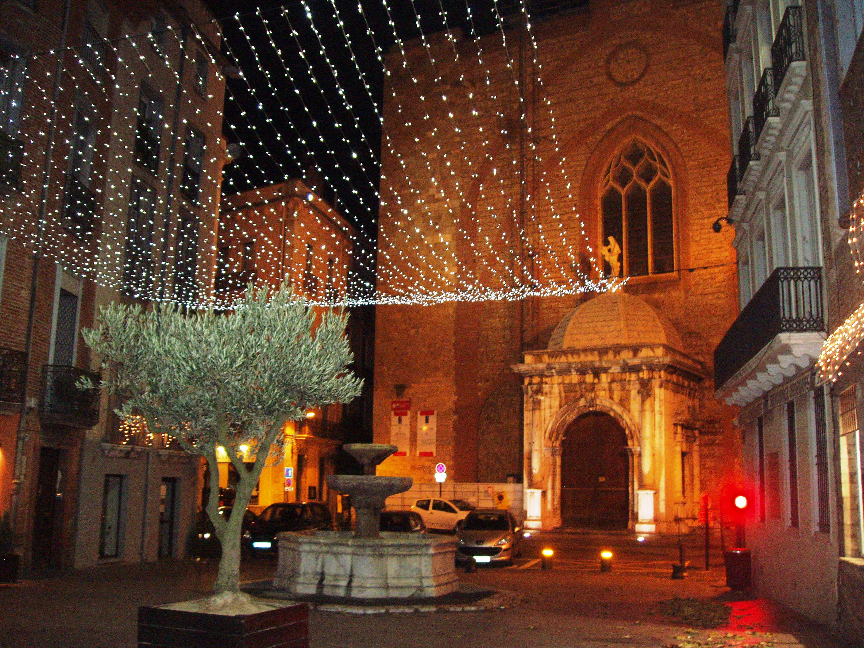 Saint john Baptist Cathedral in Perpignan, France